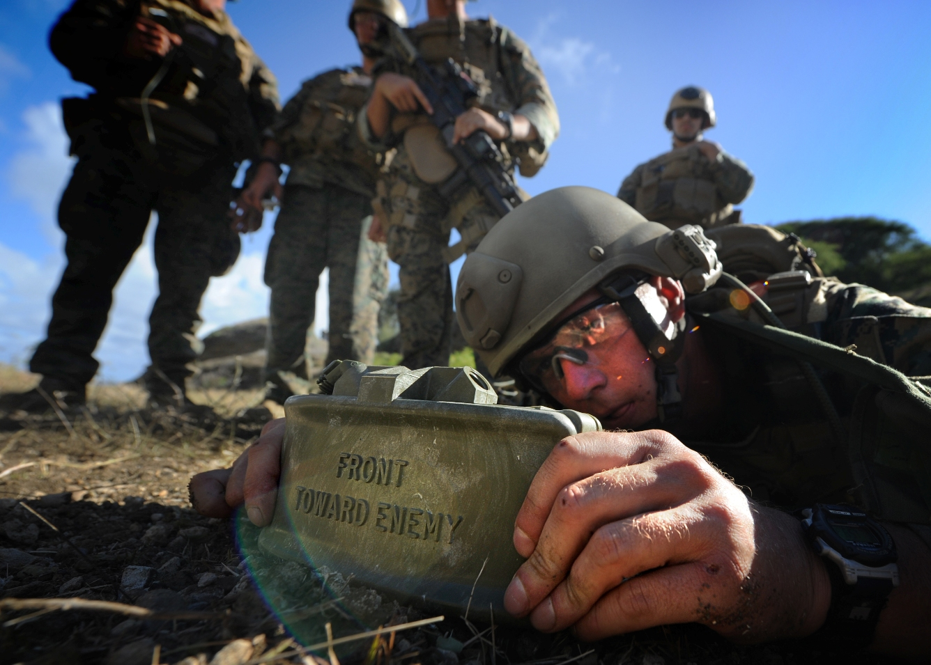 Sgt. Anthony Jacks emplaces a Claymore mine during a live-fire exercise here Sept. 20. Jacks and other Marines from Reconnaissance Platoon, Battalion Landing Team 2/4, 11th Marine Expeditionary Unit, practiced insertion methods and conducted live-fire weapon shoots Sept. 17-22 for final training before deploying with the MEU Sept. 24.